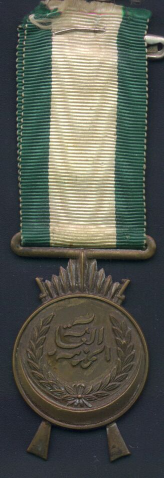 puplic service medal